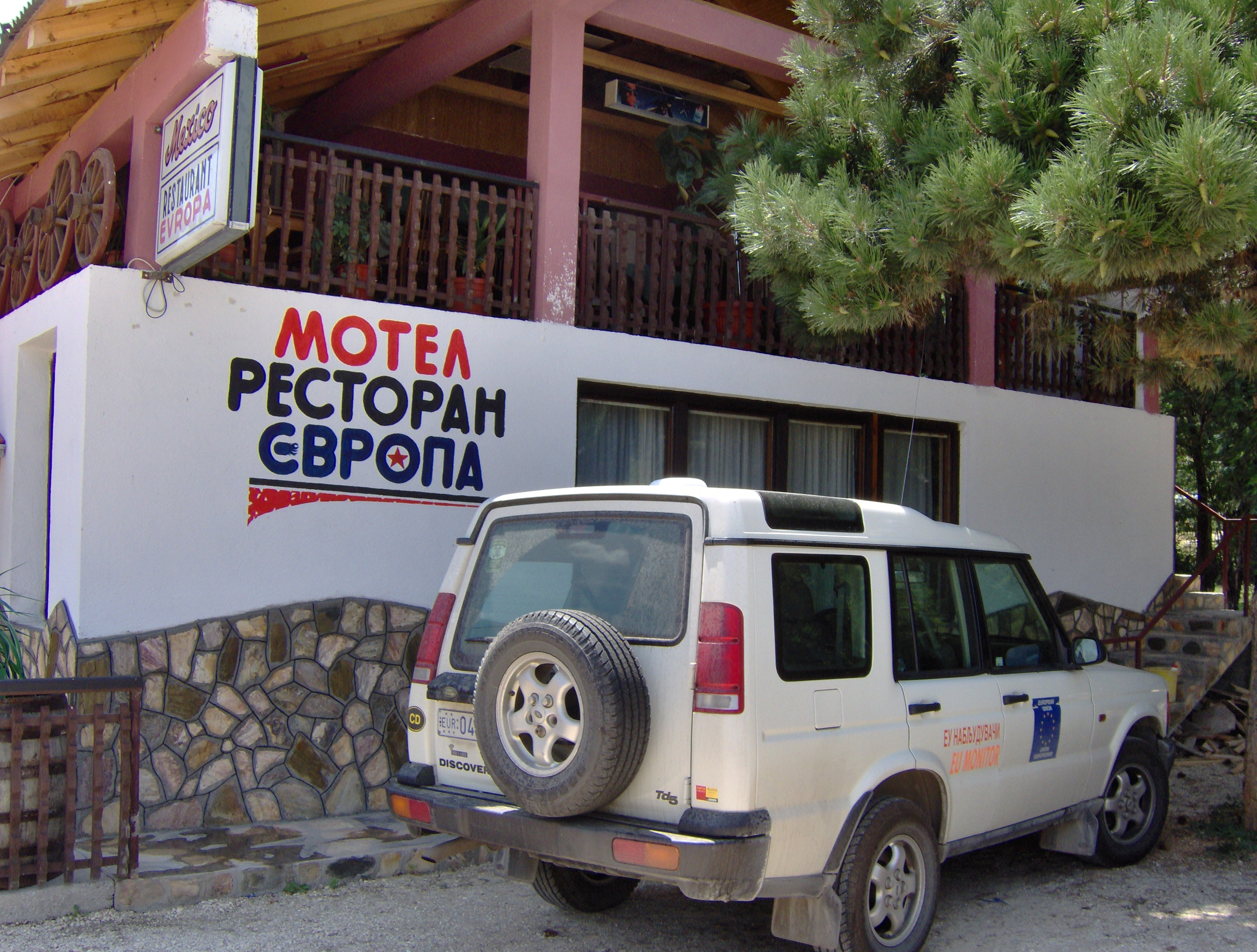 Motel and restaurant "Evropa"